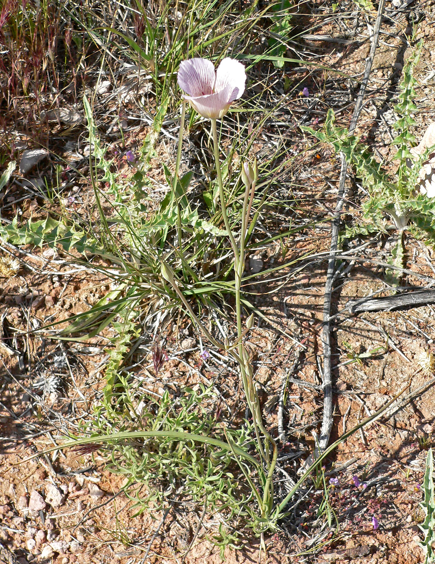 Photo of Calochortus striatus (alkali Mariposa lily) in Calico Basin west of Las Vegas, Nevada